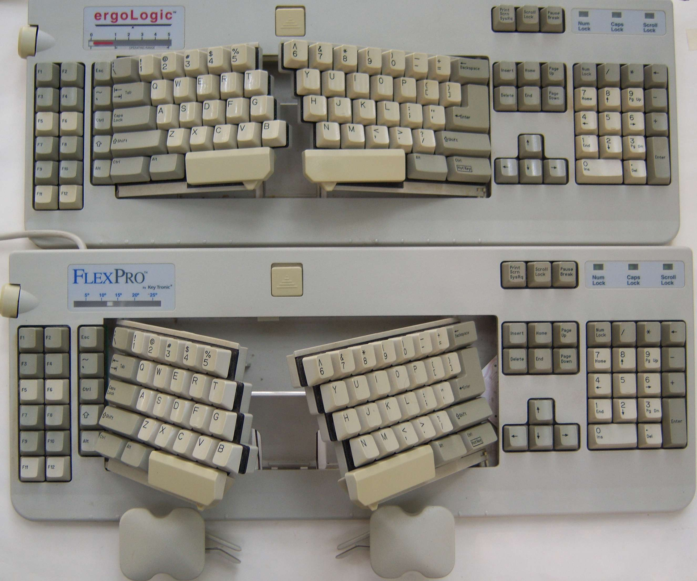 Originally introduced as ErgoLogic circa 1994, bought by Keytronic, which marketed design as FlexPro. Based upon Northgate OmniKey/102 layout but added main row angle adjustment and adjustable palm pads for support.